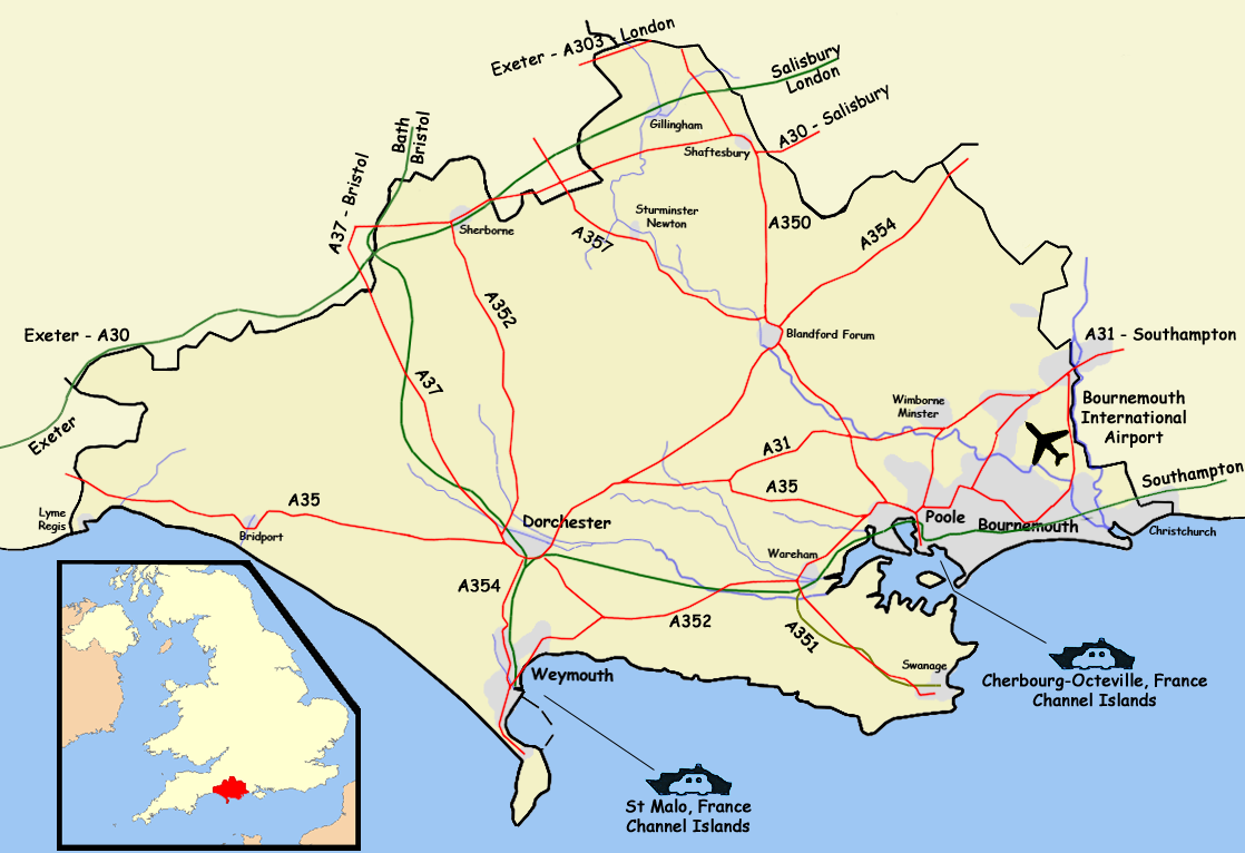 Roads and railways in Dorset